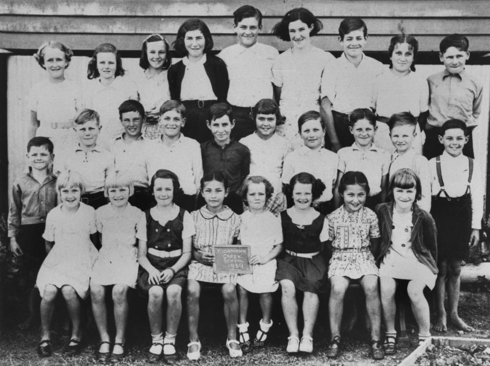 Kidamann Creek State School, 1939 Back row: Joyce Sharry; Dorothy Charles; Shirley Reinhardt; Clarie Kirk; Arthur Jordan; Hazel Hunsley; John Hordan; Rita Jordan; Laurence Tooth. Middle row: Ken Reinhardt; Ken Paulger; Charles Hunsley; Victor Jordan; Wallace Jordan; Beryl Davies; Maurice Lickefett; Stanley Paulger; John Charles; Fred Reinhardt. Front row, Dora Davies; Dawn Liekefett; Lorna Sharry; Jean Moon; Audrey Sharry; Katherine Sharry; Beryl Moon; Dawn Hartley. Absent - Noel Liekefett; Betty Moon; Robin Sharry; Sonny Moon; Cecily Paulger. (Description supplied with photograph.).